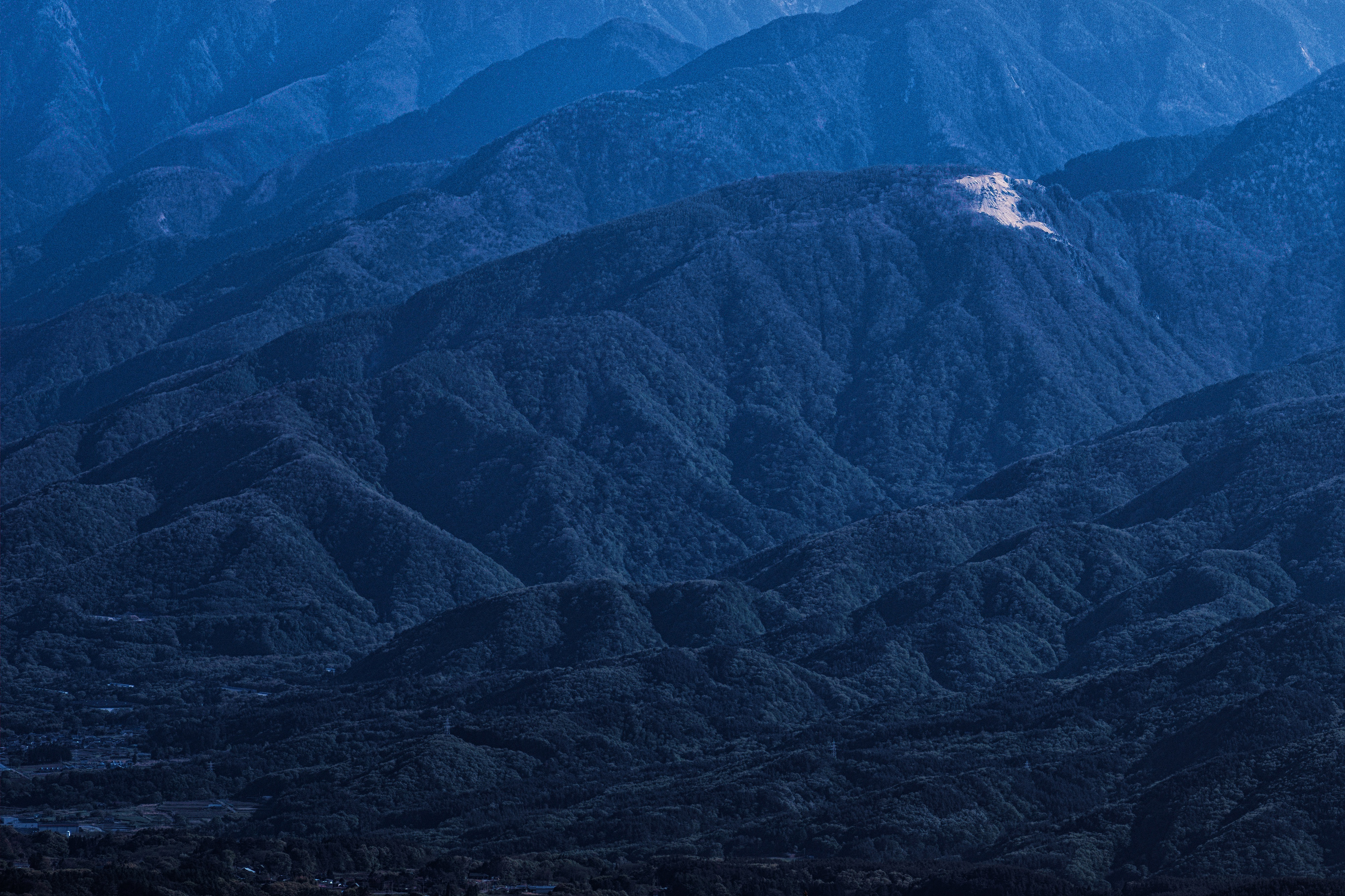 Mount Hinara (Hinata-yama) seen from the northeast in Honshu, Japan.